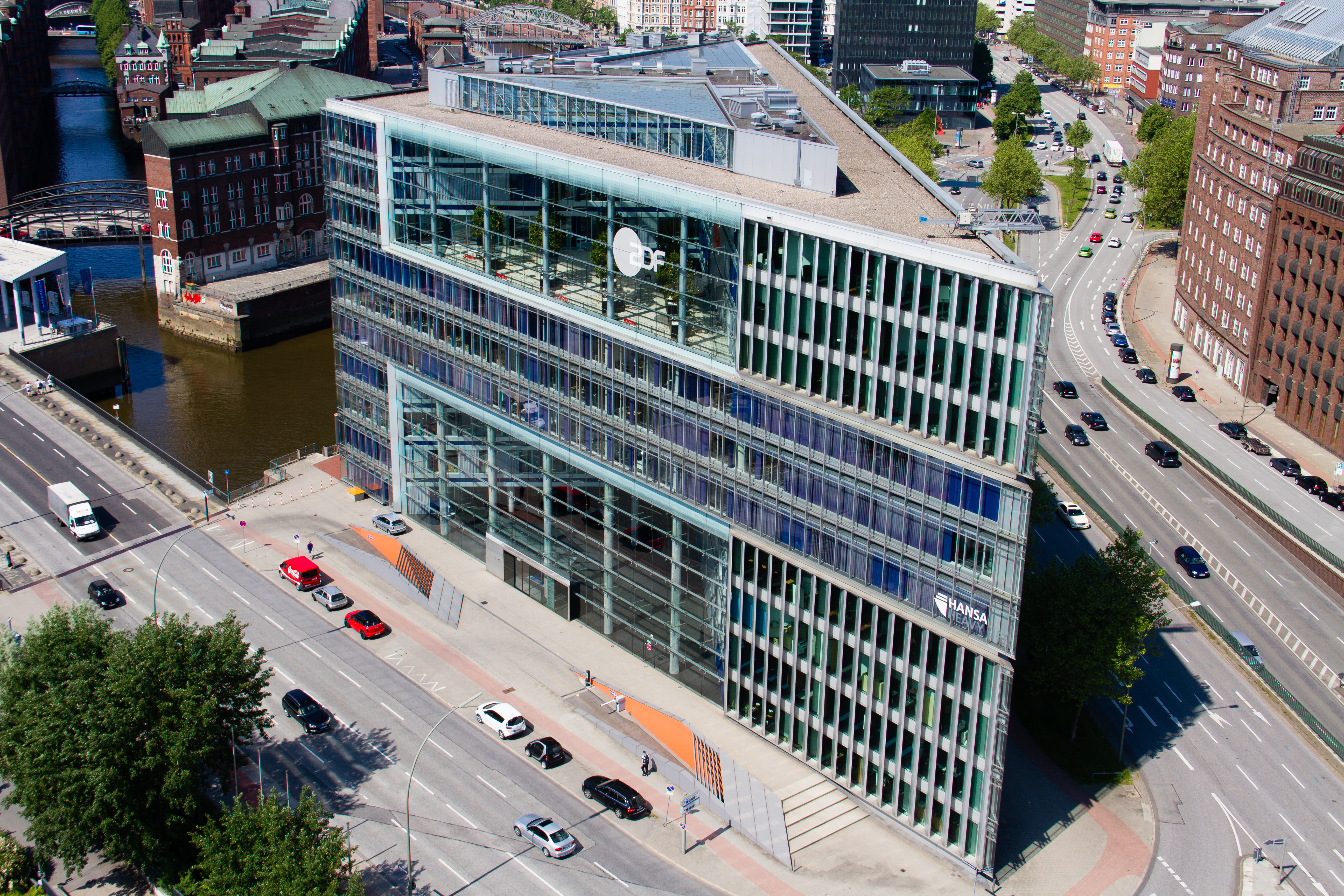 ZDF country studio Hamburg, (Germany)